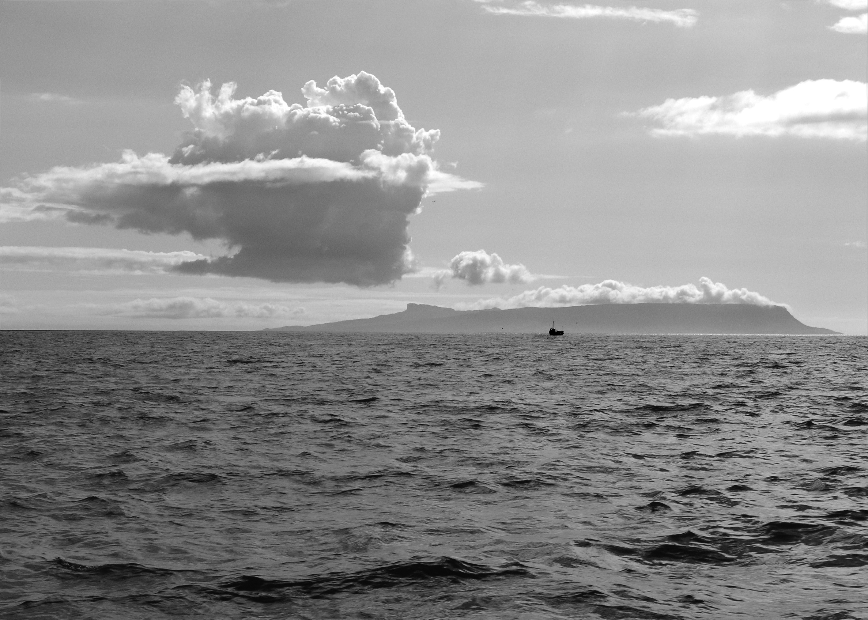 View towards the island of Eigg, Scotland (probably from near Arisaig or Mallaig)cloud island boat